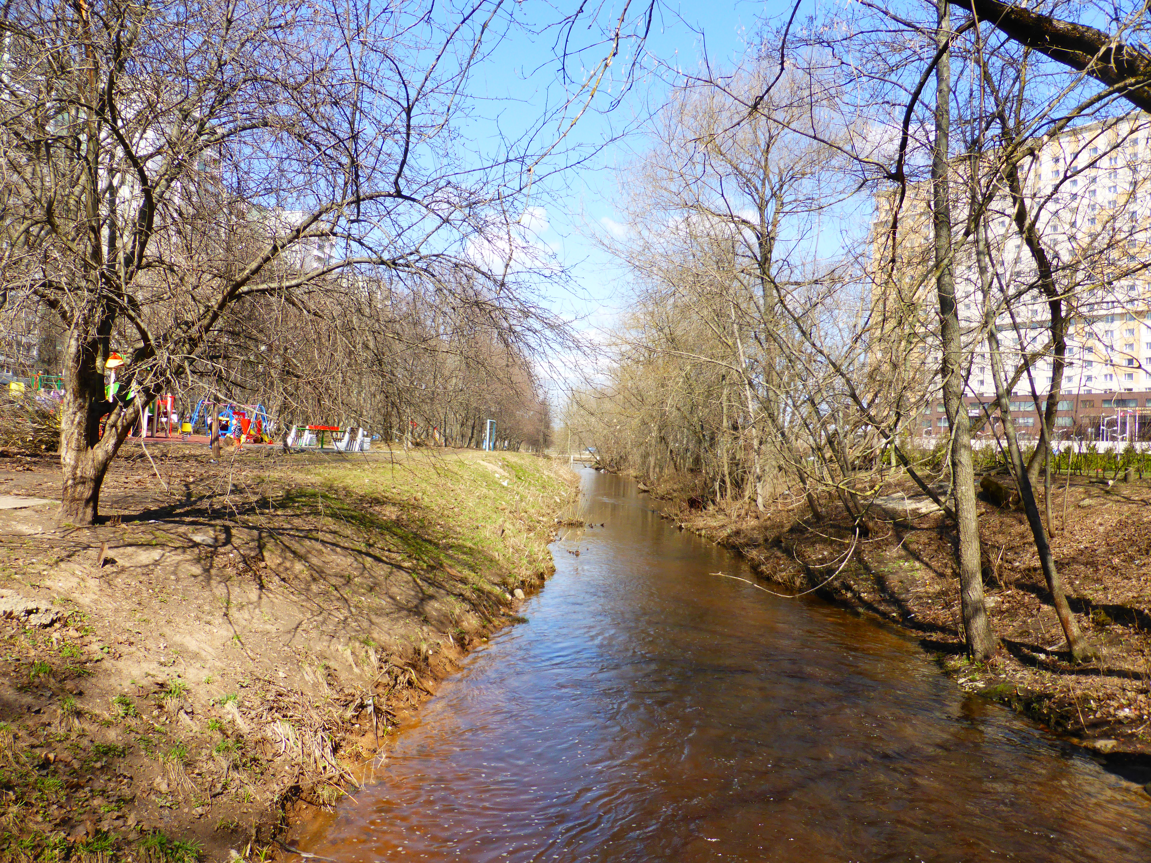 River valley Ichka